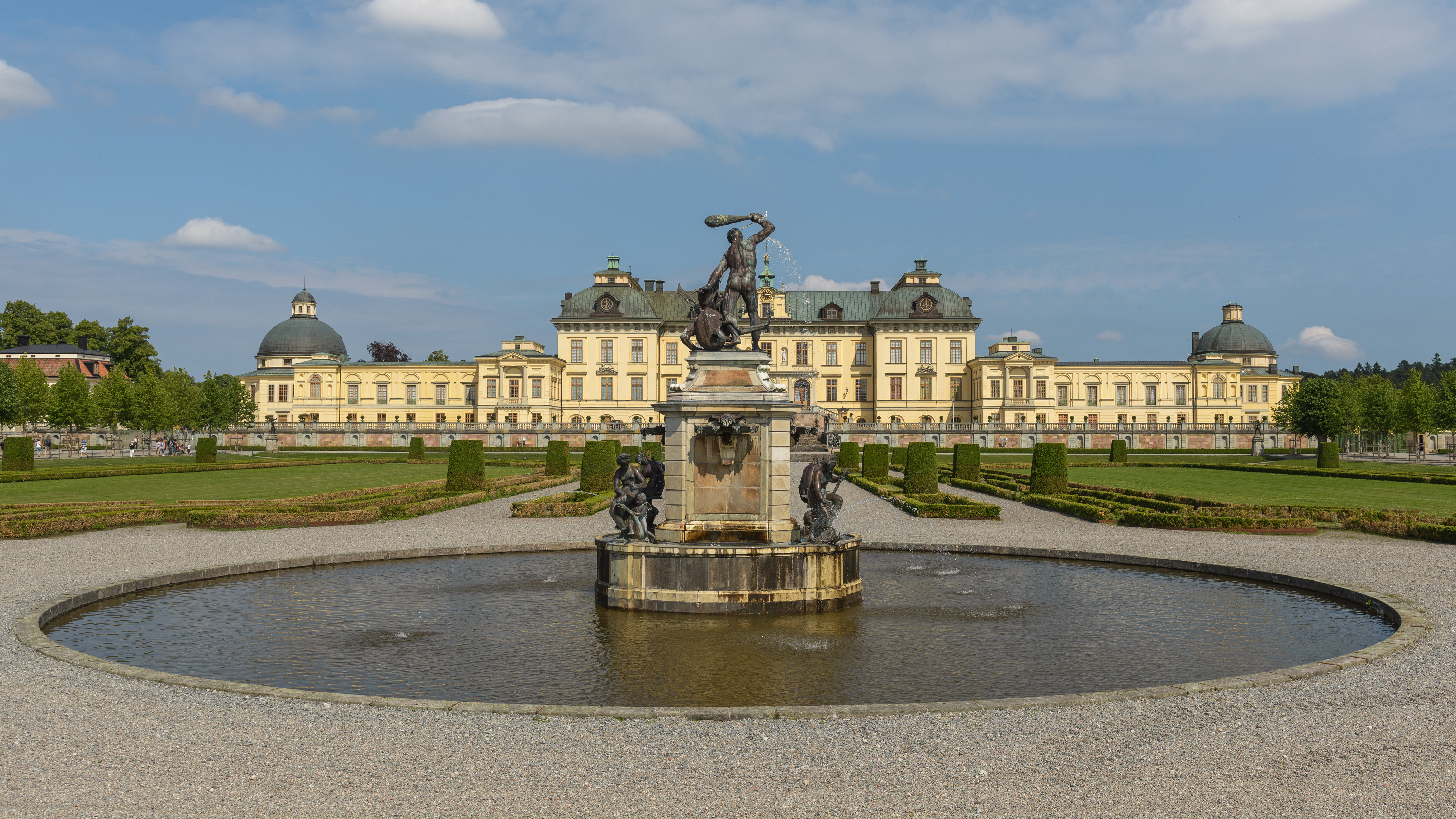 The Hercules fontain by Nicodemus Tessin the younger, in front of the Drottningholm Palace, with the Adriaen de Vries sculpture "Hercules in battle with the dragon on top.